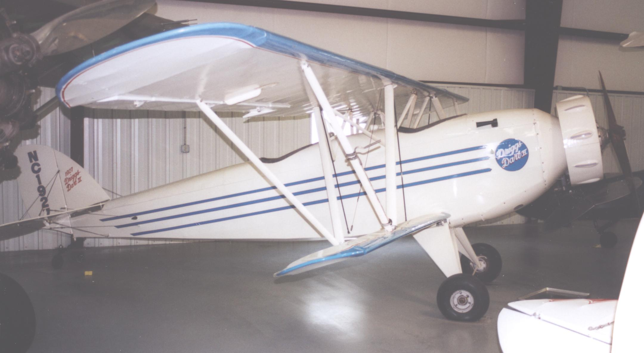 Driggs Dart II Sesquiplane of 1927 at the Historic Aircraft Restoration Museum, Dauster Field, St Louis, Missouri